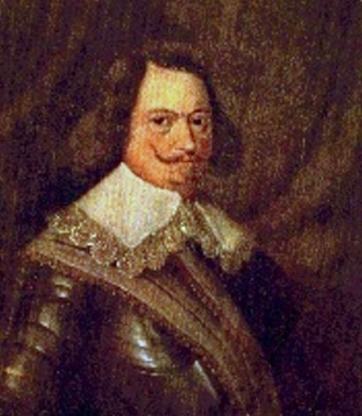 Jacob Kettler, 1642-1682 Duchy of Courland